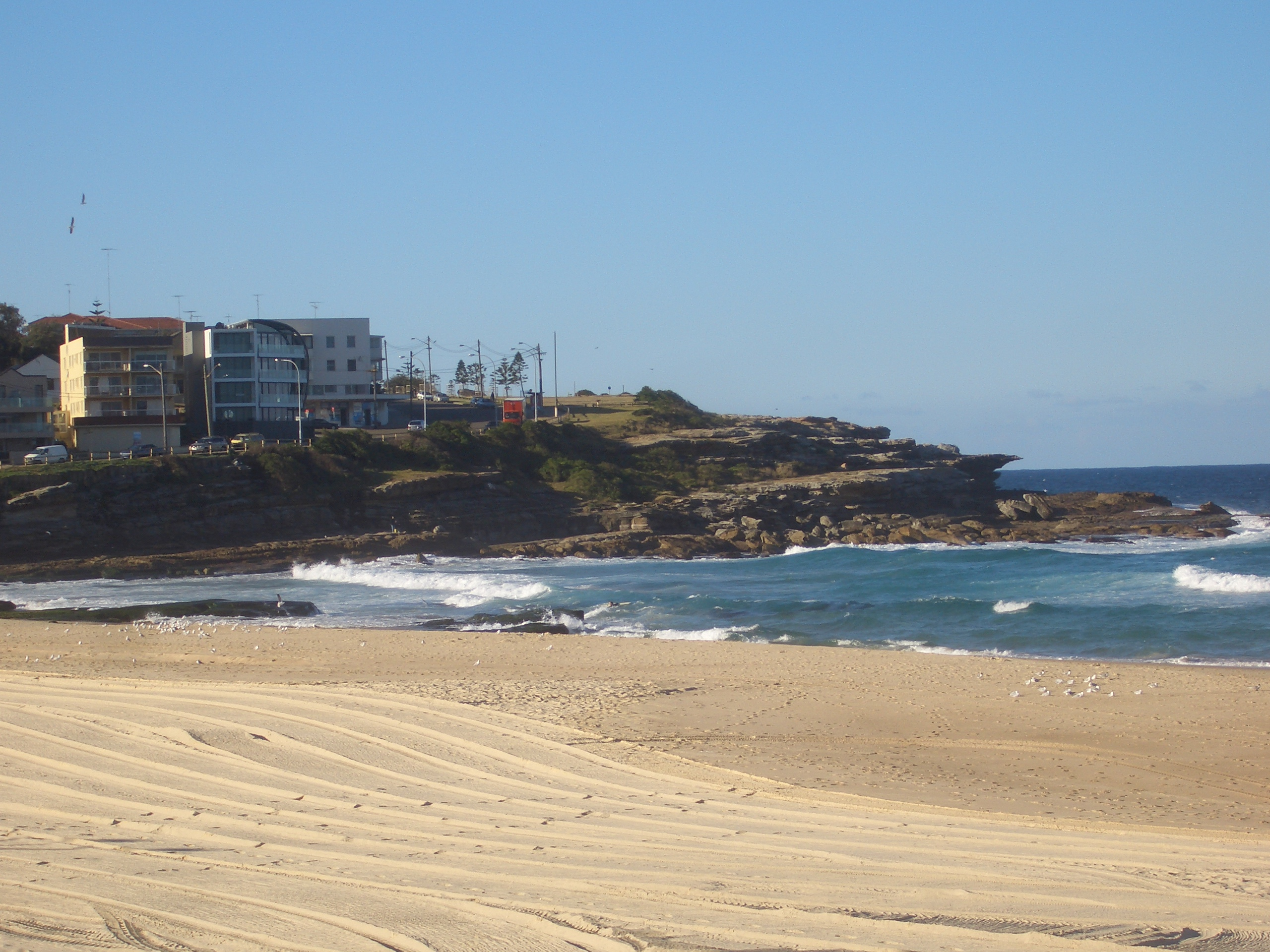 Maroubra Beach, SydneyEsperanto: Maroubra Plaĝo, Sidnejo